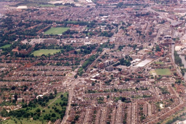 Aerial view across East Reading My father took this photo in the 80's when he had a small aircraft flight as a birthday present.